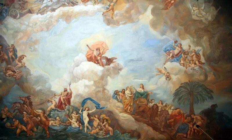 Bacciarelli's plafond depicting Disentangle of Chaos in the Ballroom at the Royal Castle in Warsaw. Reconstructed after WWII destruction (Łucja and Józef Oźmin).